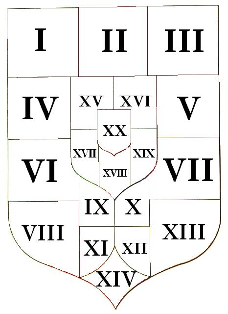 Numbers of the shield quarters of the Middle Coat of Arms_of_the_Austrian_Countries_(1915)